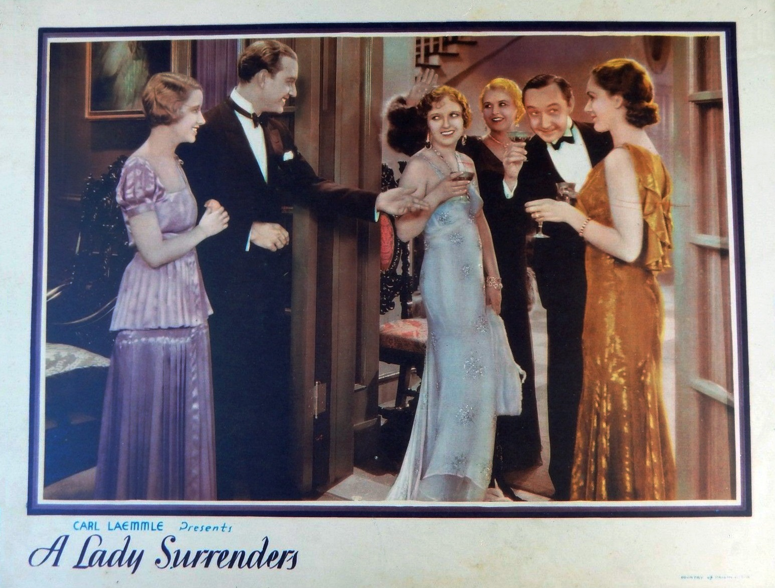 Lobby card for the American romantic drama film A Lady Surrenders (1930) with Rose Hobart, Conrad Nagel, Vivien Oakland, Genevieve Tobin, Franklin Pangborn, and Carmel Myers. The item has no copyright marks on it as can be seen at links and original upload. At bottom right is Country of origin USA.